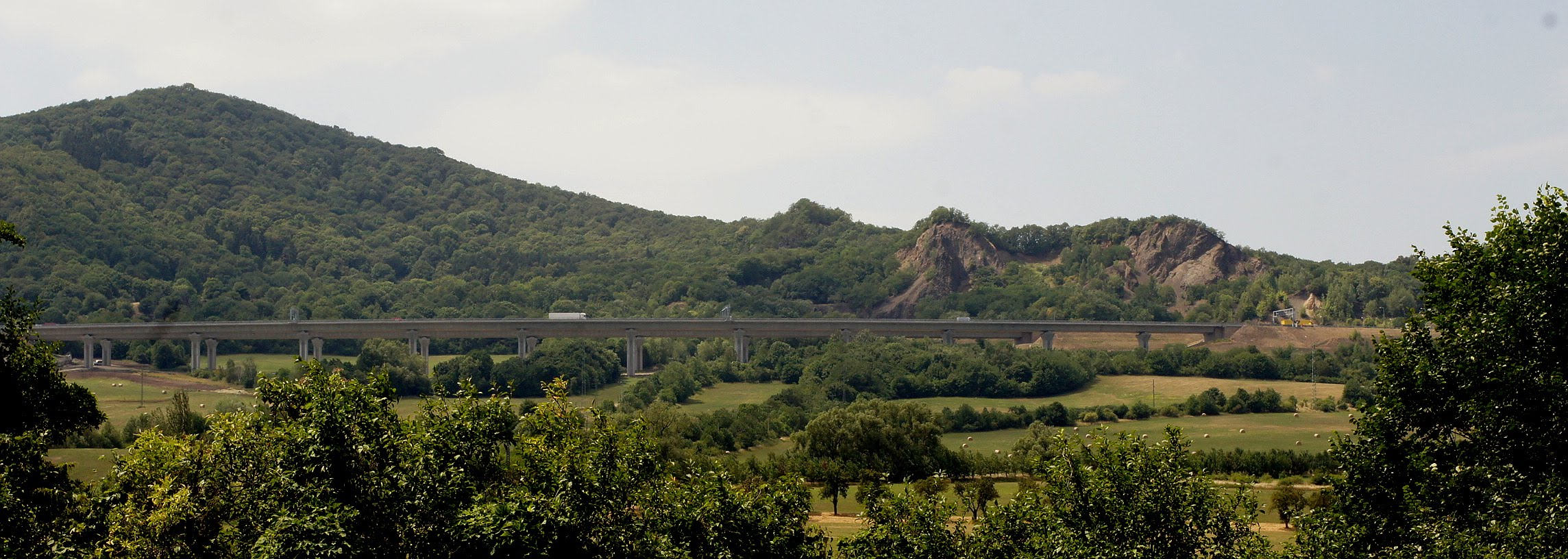 Czech motorway D8 near Prackovice